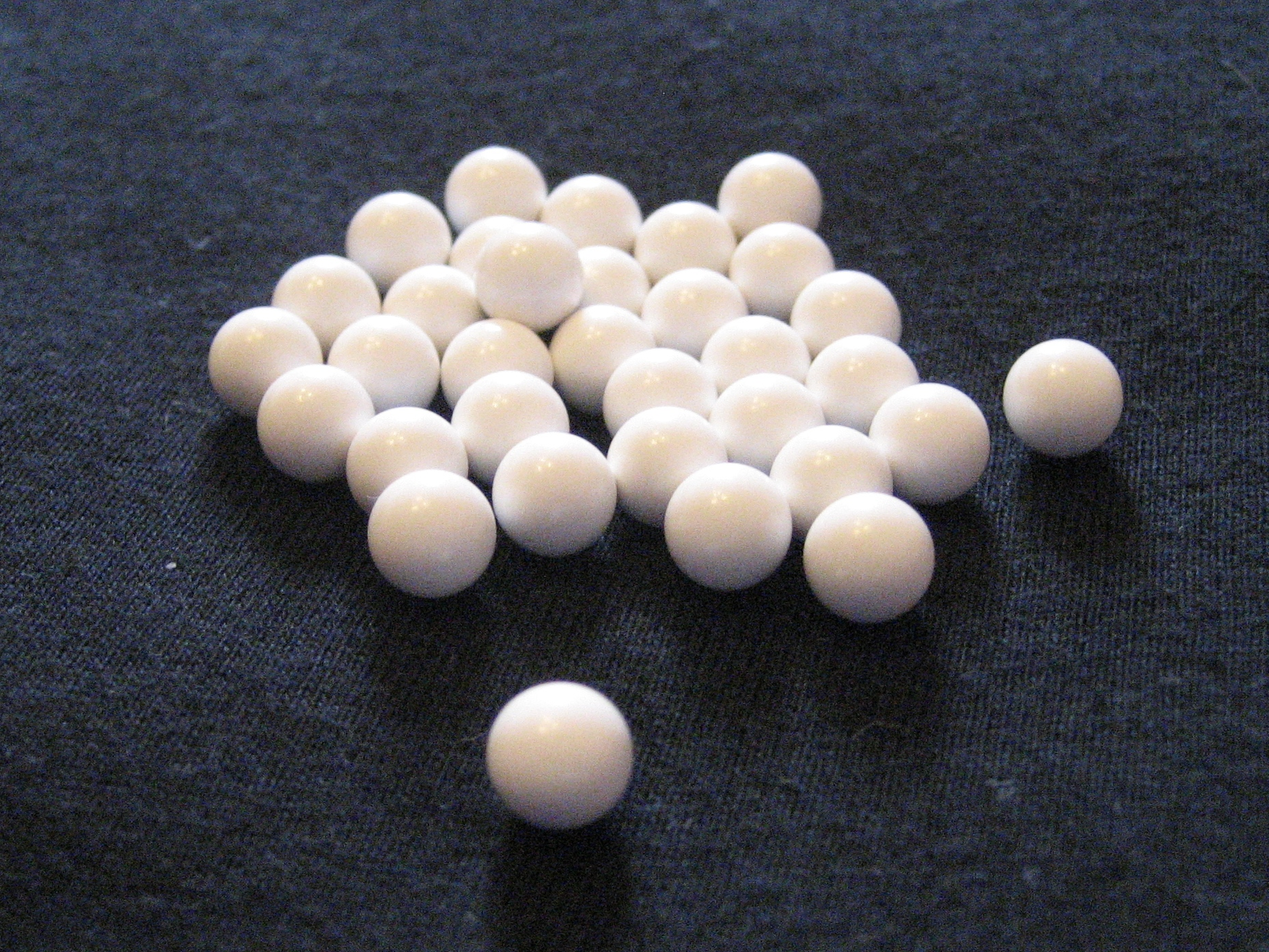 Airsoft pellets, 6mm, 0.20g